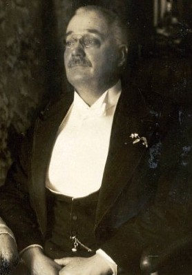 Halfdan Hopstock (1866-1922), norwegian physician and associate professor of medicine